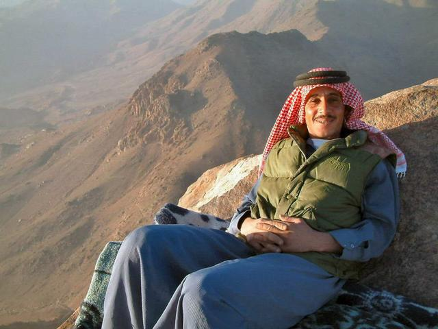 Bedouin resting at the mount sinai.More pictures of my travel in Egypt and Israel